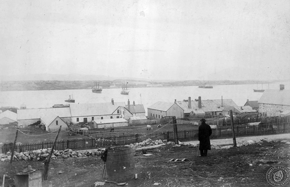 View of the Islas Malvinas port.